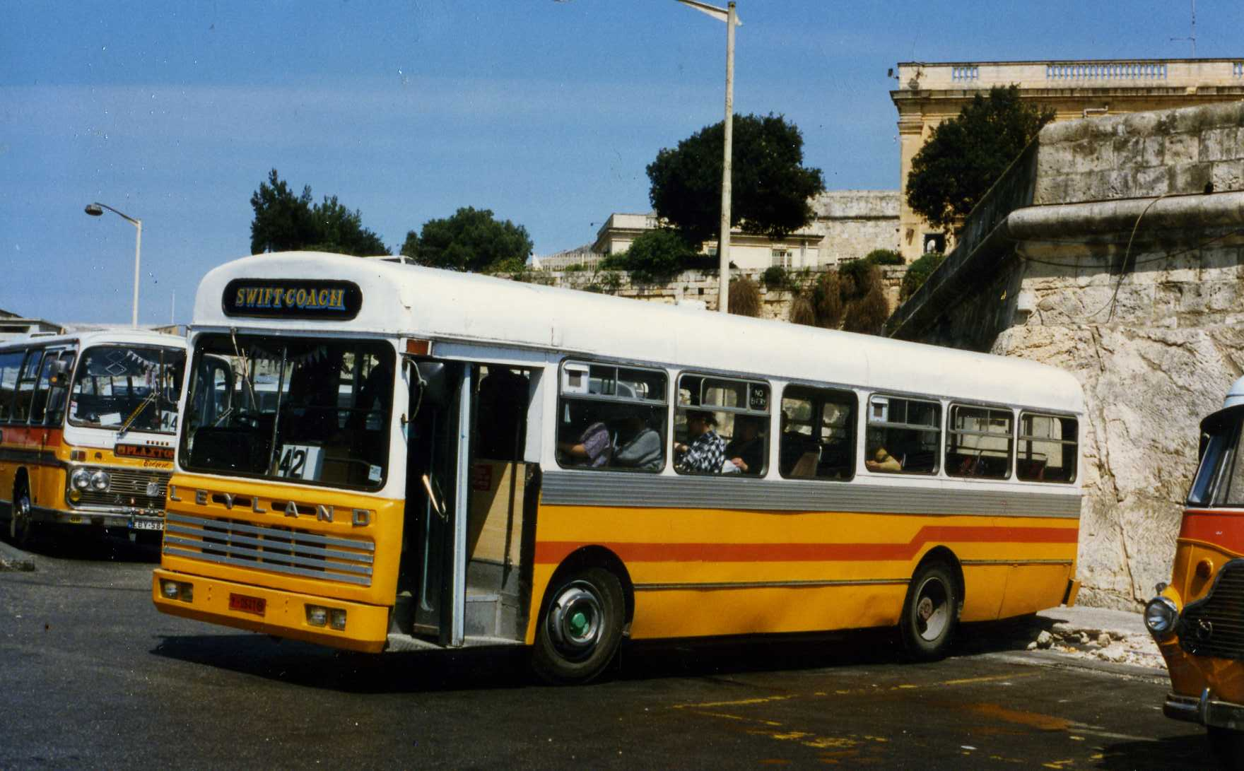 Now fitted with a different front and registered FBY 641. In the background, Bedford-Plaxton EBY 587.